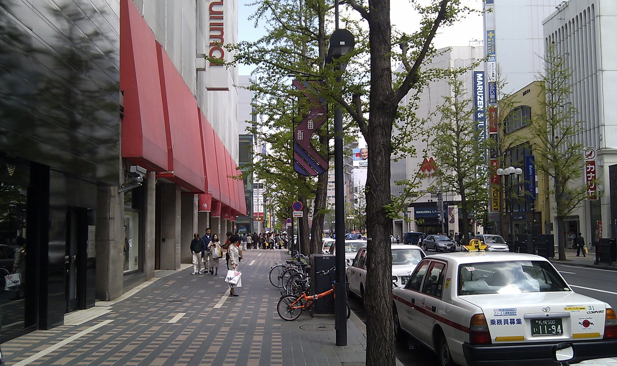 Minami 1 Jonishi, Chuo Ward, Sapporo, Hokkaido Prefecture 060-0061, Japan